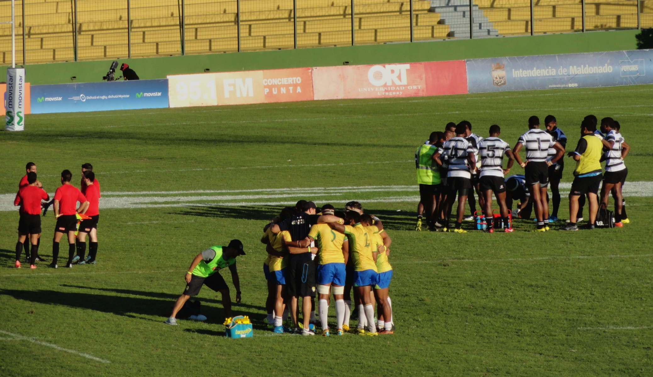 2017 Punta del Este Sevens, Brazil and Fiji at half time during the rugby sevens tournament held at the Estadio Domingo Burgueño Miguel in Maldonado, Uruguay.